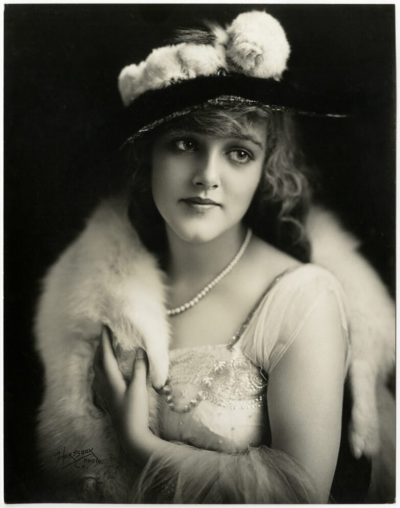 Portrait of American actress Mildred Davis ( 1901–1969) by Fred Hartsook (Hartsook Photo, LA)